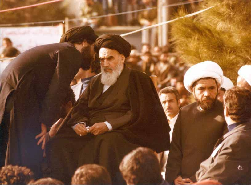 Ayatollah Mohammad Mofatteh and Grand AyatollahRuhollah Khomeini